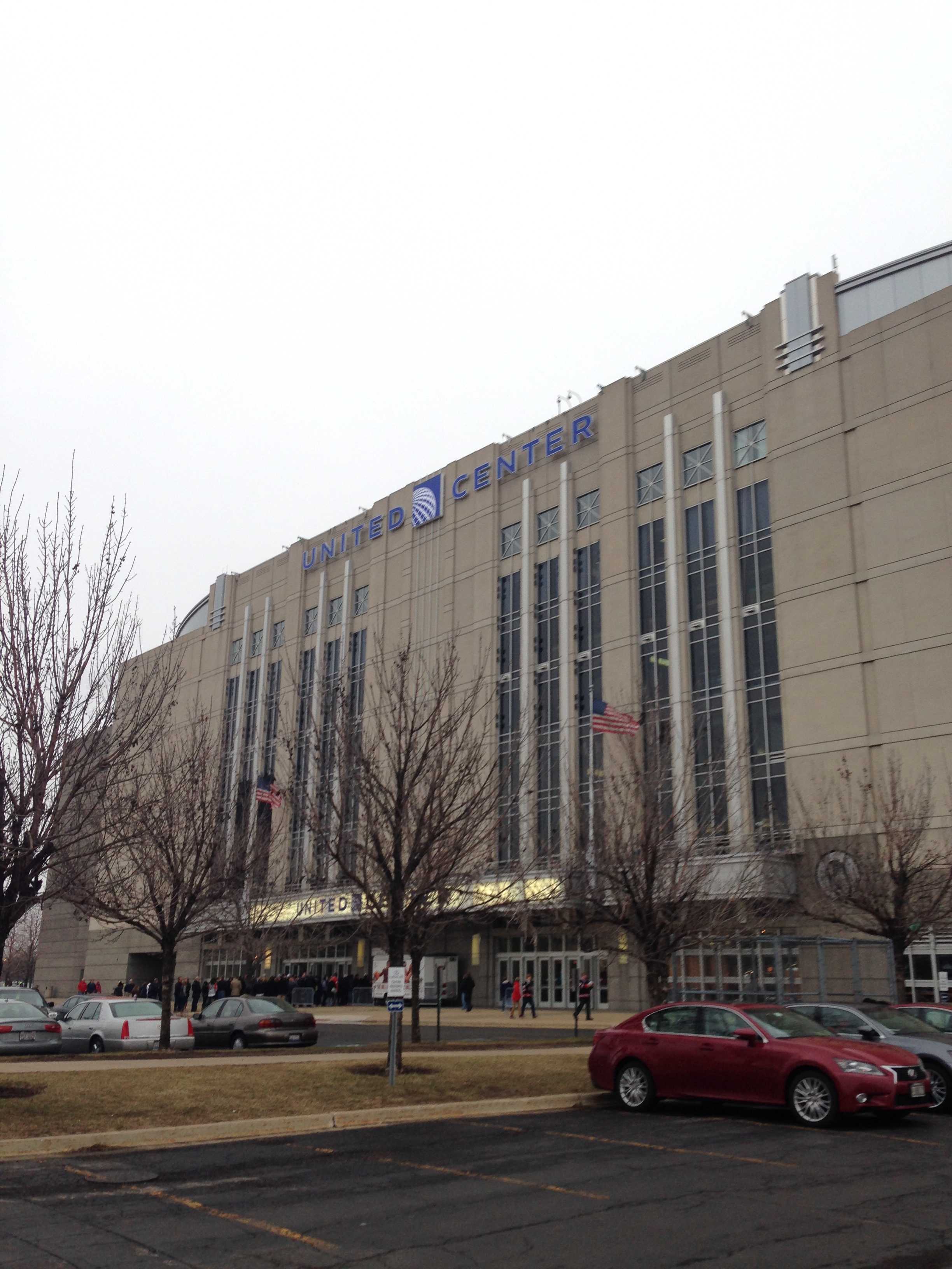 United Center from the Southern side, Chicago, Illinois